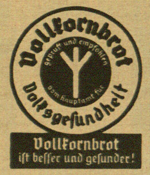 Historical advertisement for whole-grain bread by a Nazi organisation published in 1942 in a Nazi women's magazine.